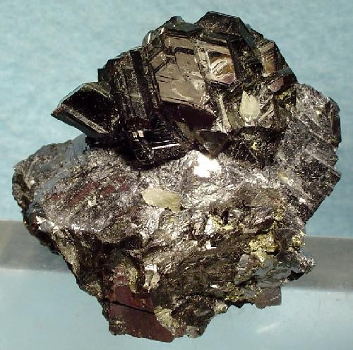 Sphalerite, Galena Locality: Naica, Municipio de Saucillo, Chihuahua, Mexico (Locality at ) Size: 4.7 x 3.6 x 2.6 cm. An excellent and showy specimen of a ball-like cluster of highly lustrous, twinned and striated, jet-black sphalerite crystals perched atop galena from Naica, Mexico. The sphalerite cluster is pristine. Classic material. Ex. Joe Key Collection.